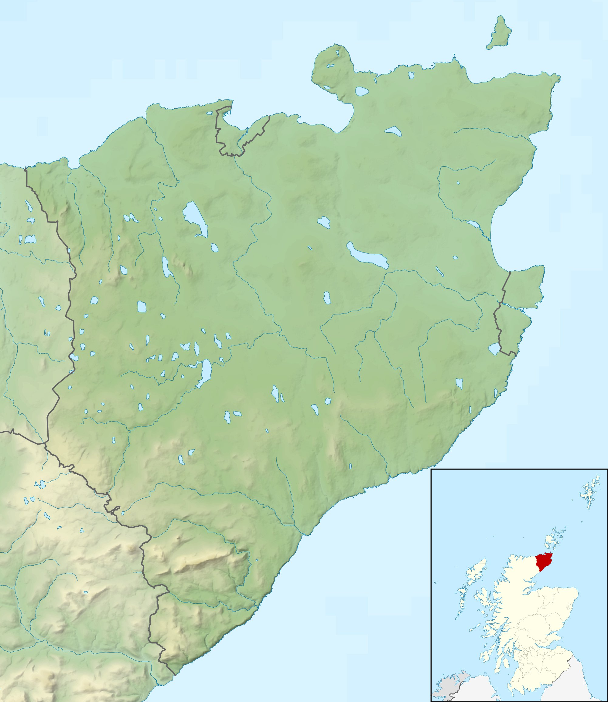 Relief map of Caithness, UK. Equirectangular map projection on WGS 84 datum, with N/S stretched 180% Geographic limits: West: 3.9W East: 2.95W North: 58.71N South: 58.10N